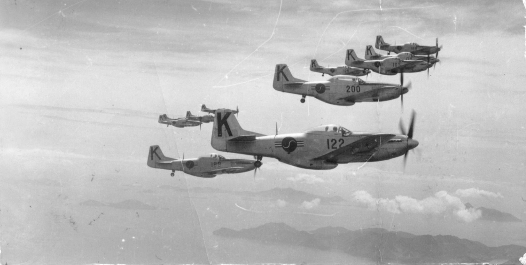 2010 국방화보 Rep. of Korea, Defense Photo Magazine 미군으로부터 양도받아 공군 사상 최초로 전선으로 출격하는 F-51 전폭기들. F-51 Mustangs, the first ROK fighters which was transferred by US armed forces.